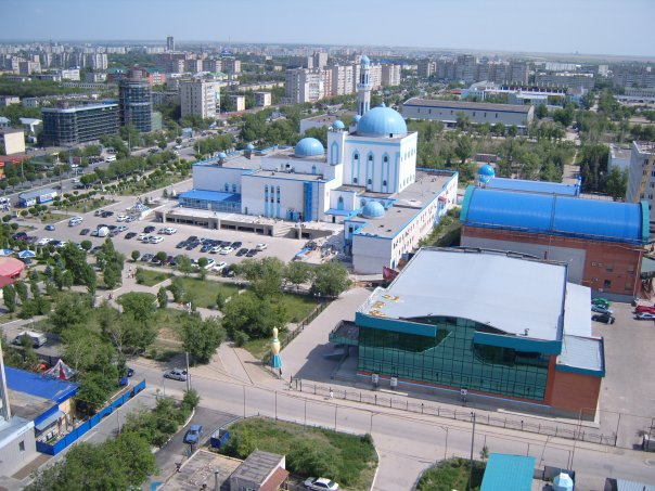 Aktobe mosque